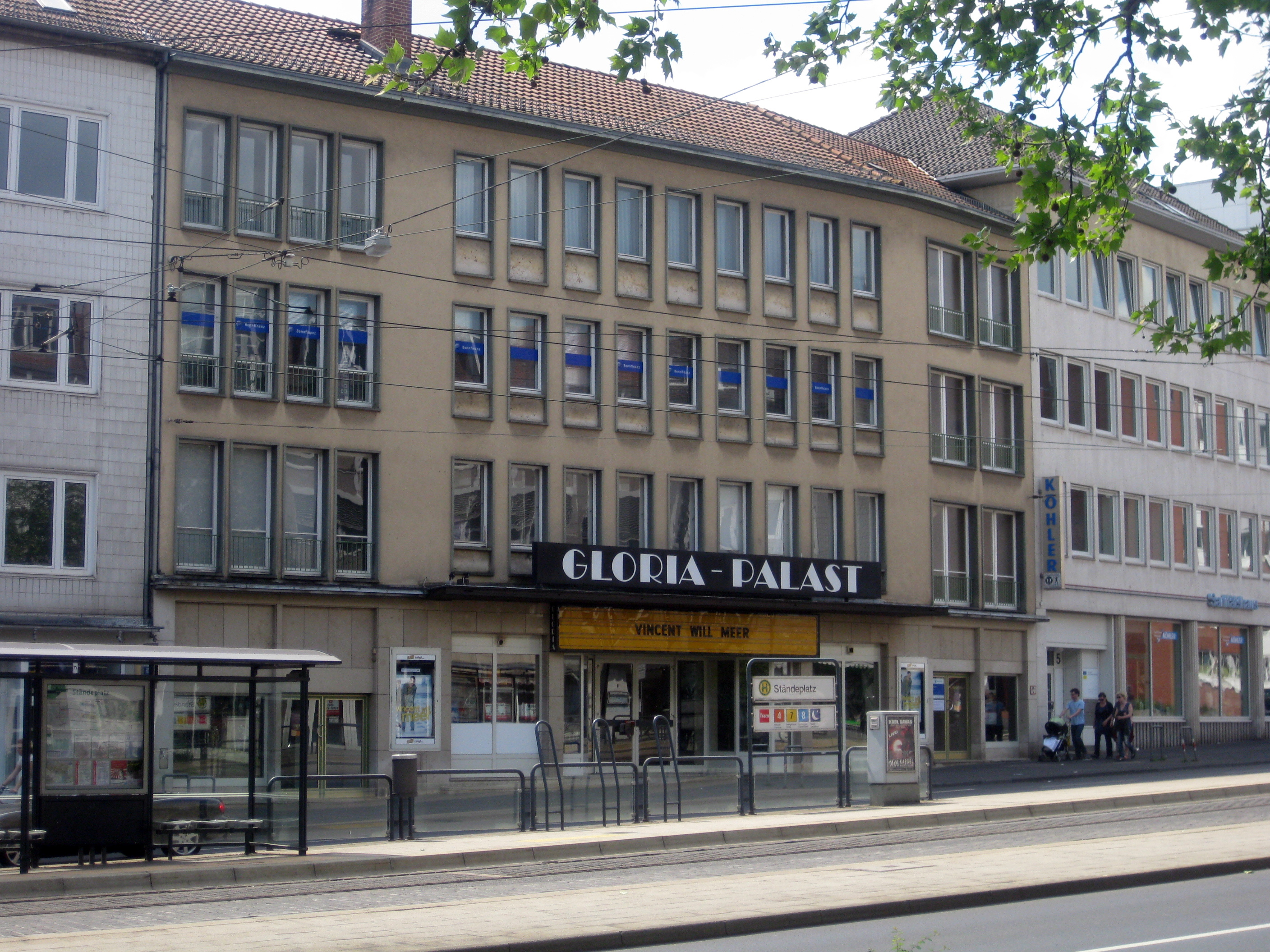 Cinema "Gloria Palast" in Kassel, Friedrich-Ebert-Straße